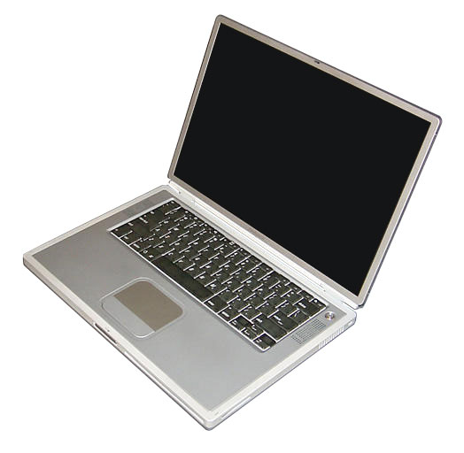 15" Apple PowerBook G4 (Titanium) 15"